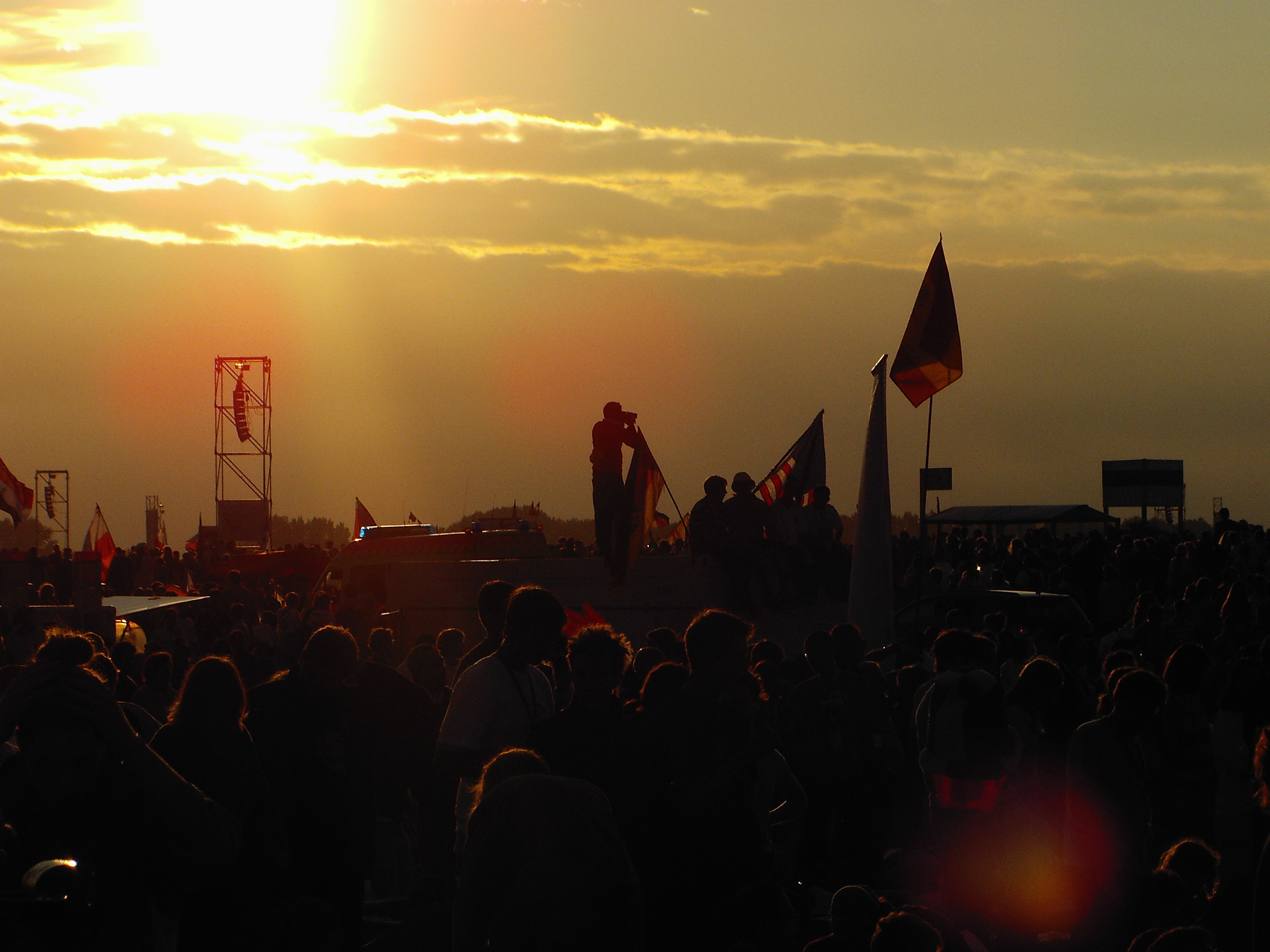 Marienfeld during World Youth Day 2005, when it hosted over 1 million visitors and Pope Benedict XVI.